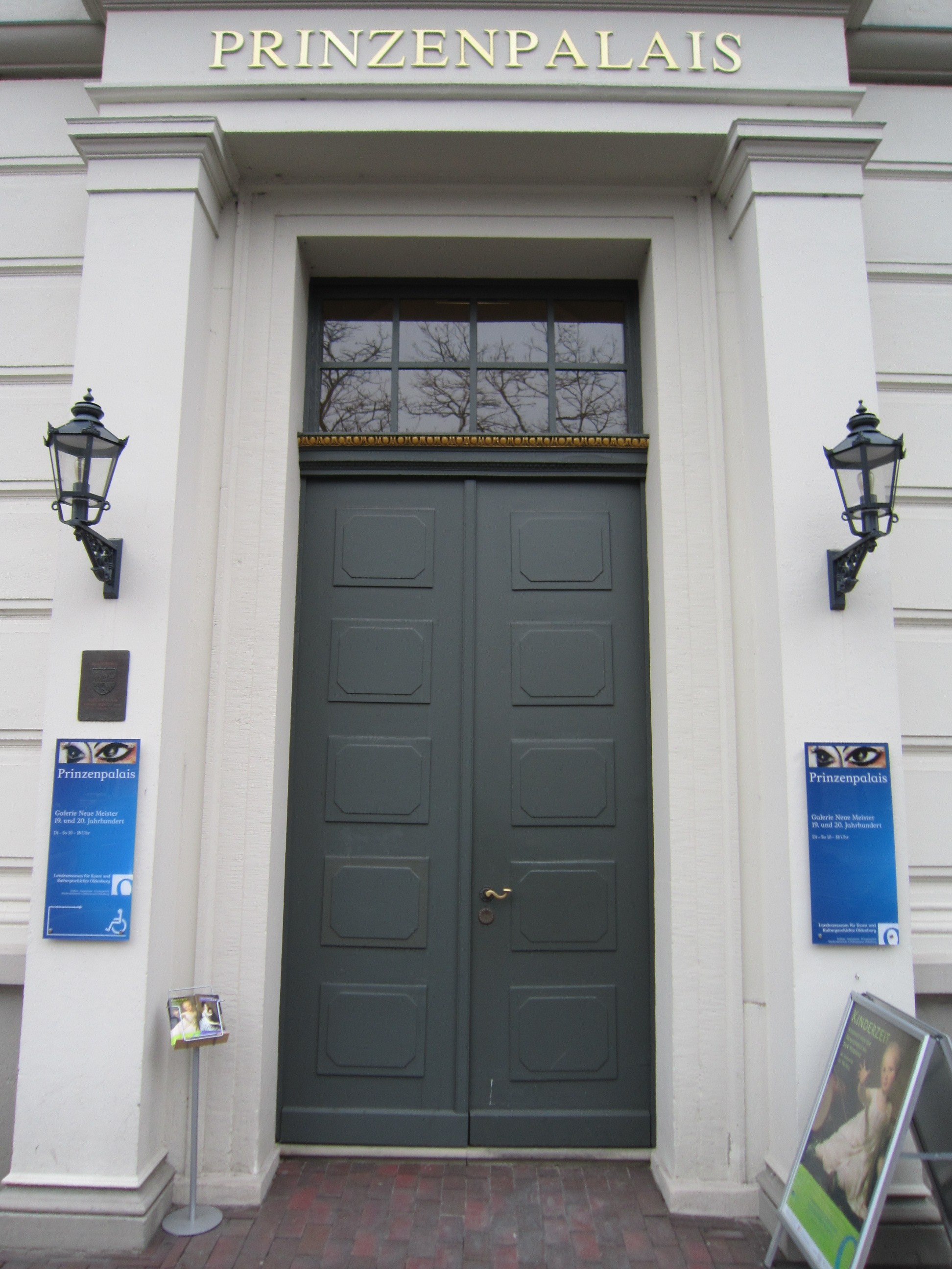 Entrance of the "Prinzenpalais" in Oldenburg (Oldenburg)